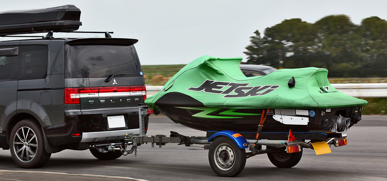 Light trailer